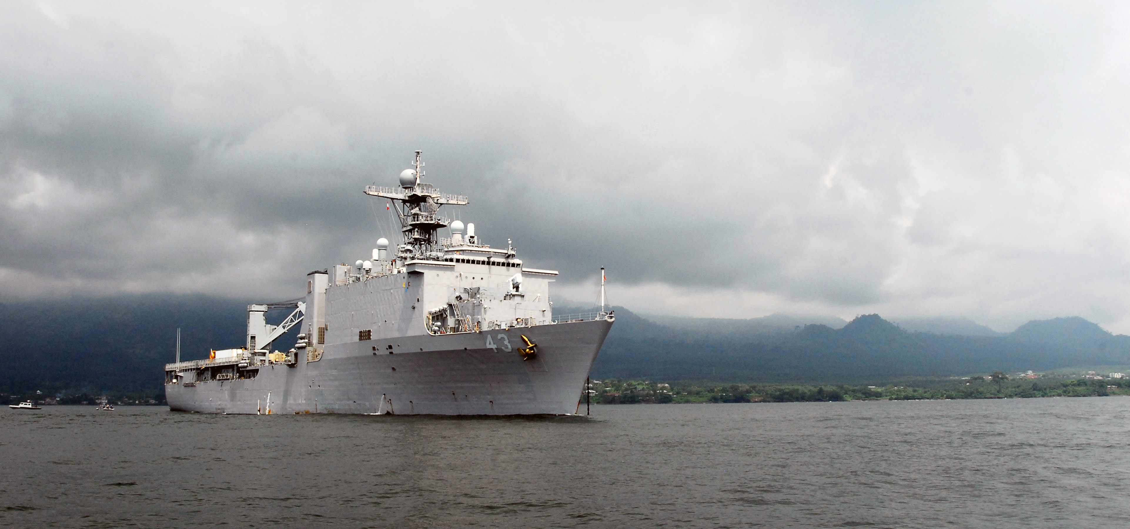 LIMBE, Cameroon (Dec. 4, 2007) The amphibious dock landing ship USS Fort McHenry (LSD 43) sits anchored off of the coast of Limbe. Africa Partnership Station (APS) is aboard Fort McHenry conducting training for Cameroonian Sailors on maritime safety and security. APS is scheduled to bring international training teams to Senegal, Liberia, Ghana, Cameroon, Gabon, and Sao Tome and Principe, and will support more than 20 humanitarian assistance projects in addition to hosting information exchanges and training with partner nations during its seven-month deployment. U.S. Navy photo by Mass Communication Specialist 2nd Class RJ Stratchko (Released)